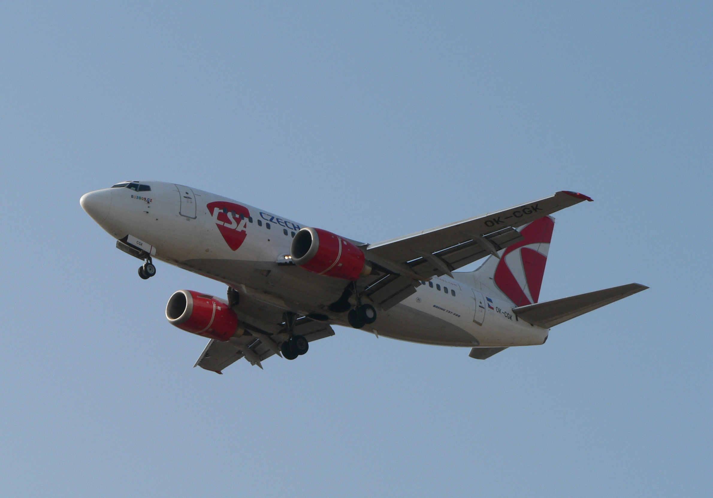 Boeing 737-500 landing on Prague-Ruzyne airport; in new Czech Airlines colors.